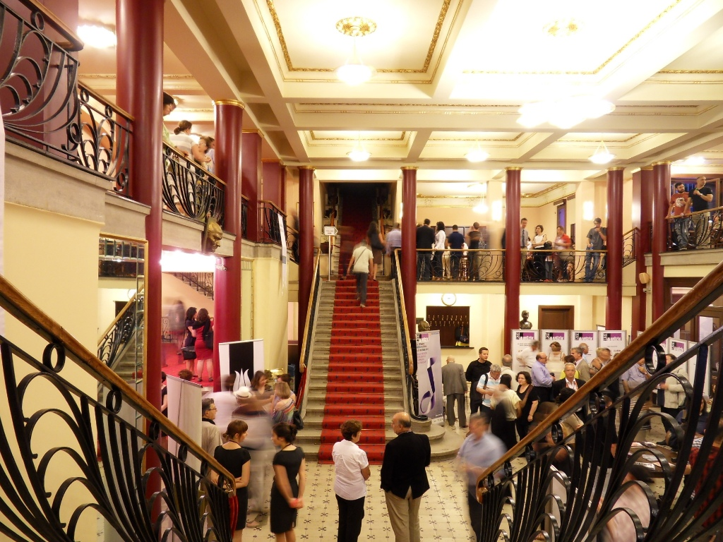 Kadıköy, İstanbul.